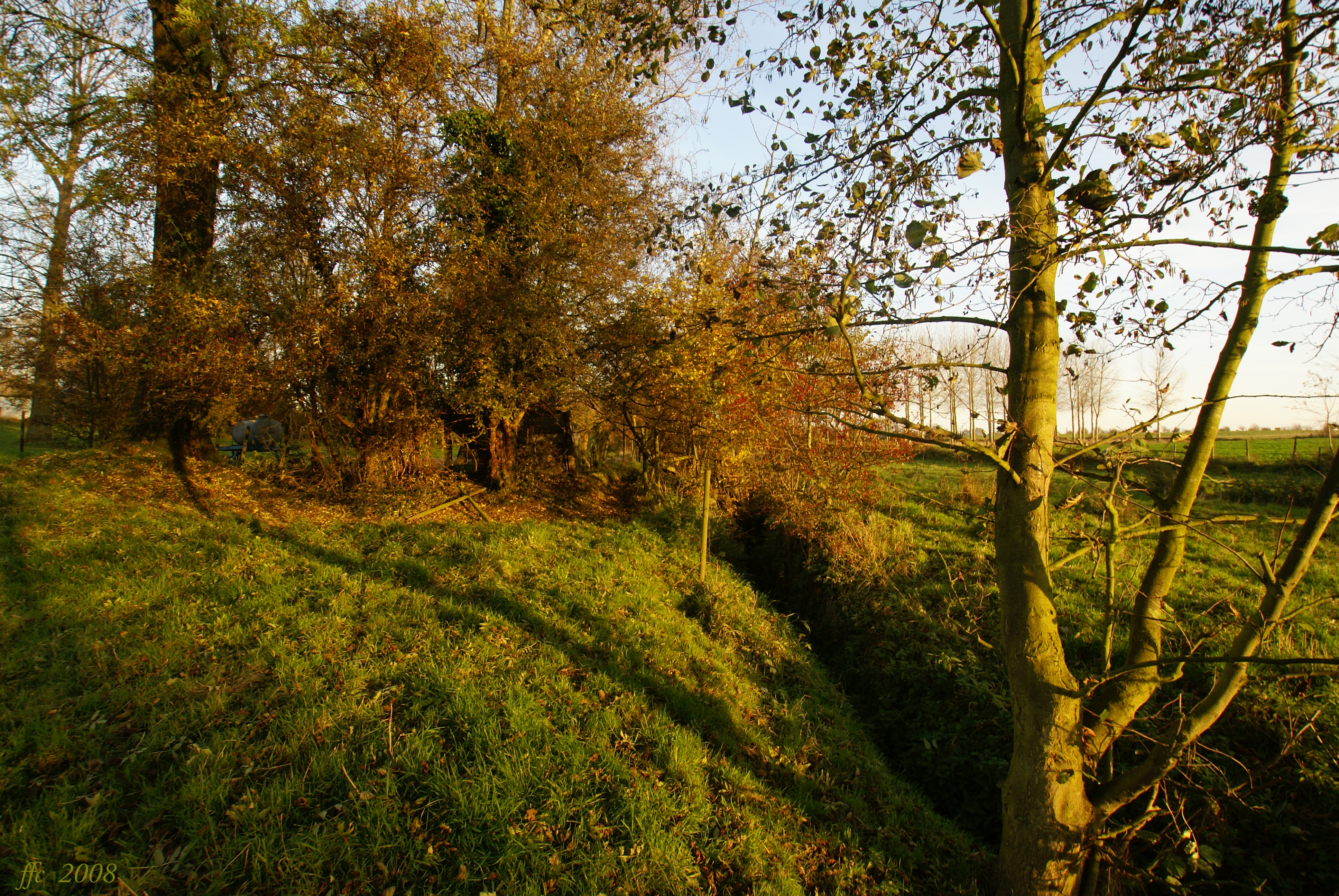 Ketsingen (Belgium): Source of the river Demer